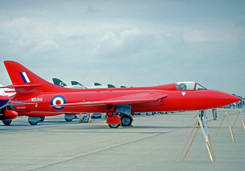 Hawker Hunter 3 WB188 world speed record holder preserved in 1976 and displayed at RAF Greenham Common